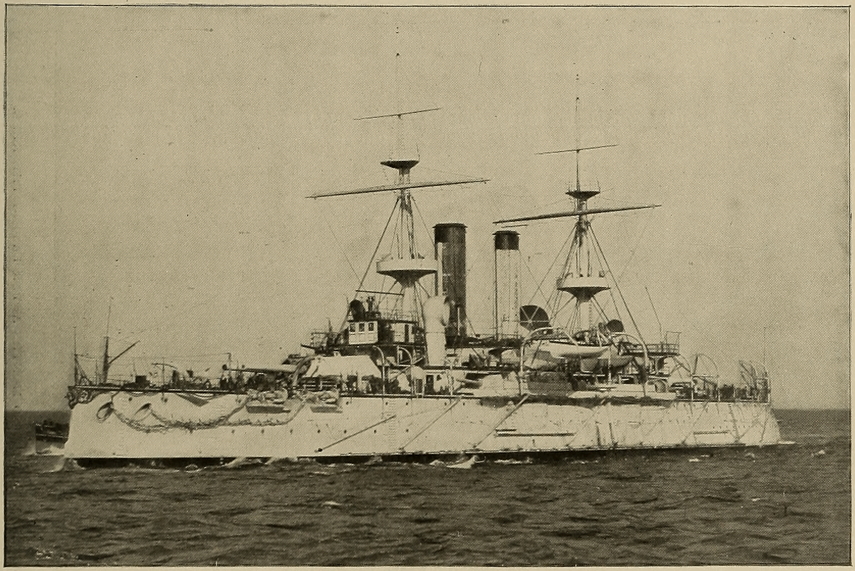 Cassier's Magazine of February 1898 had an article on page 275-292, written by Eustace Tennyson d'Eyncourt and titled The Japanese Battleship Yashima. It was accompanied by a number of illustrations, including this photo, showing the vessel after her speed trials of July 1897, on page 277.